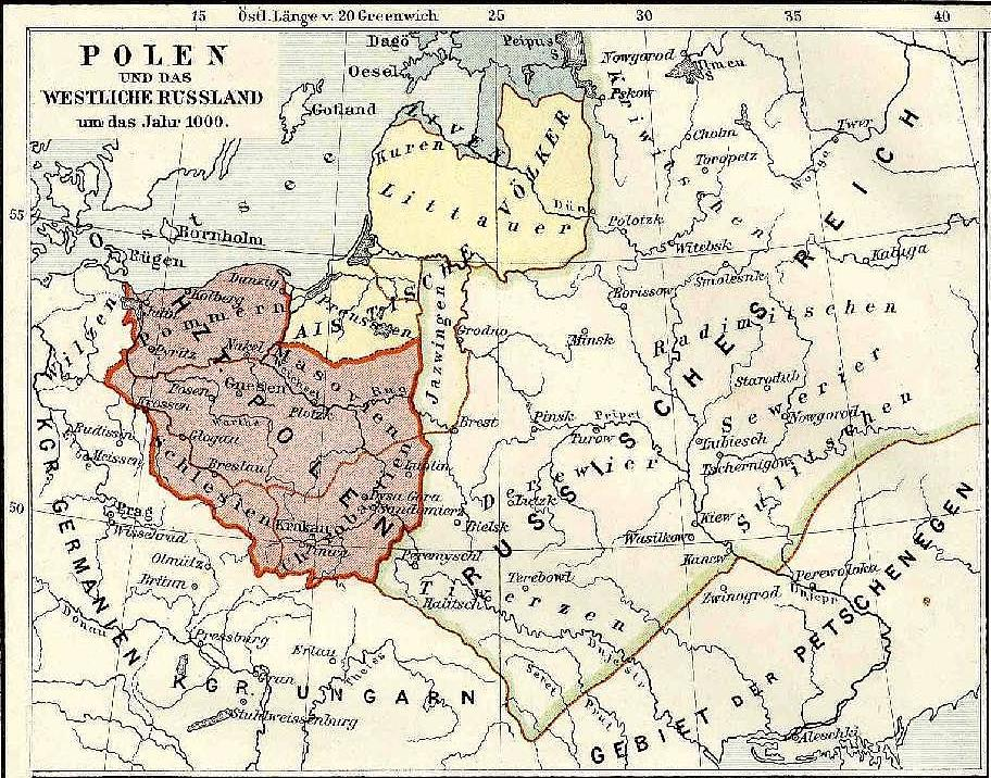 Map of Poland in the year 1000.